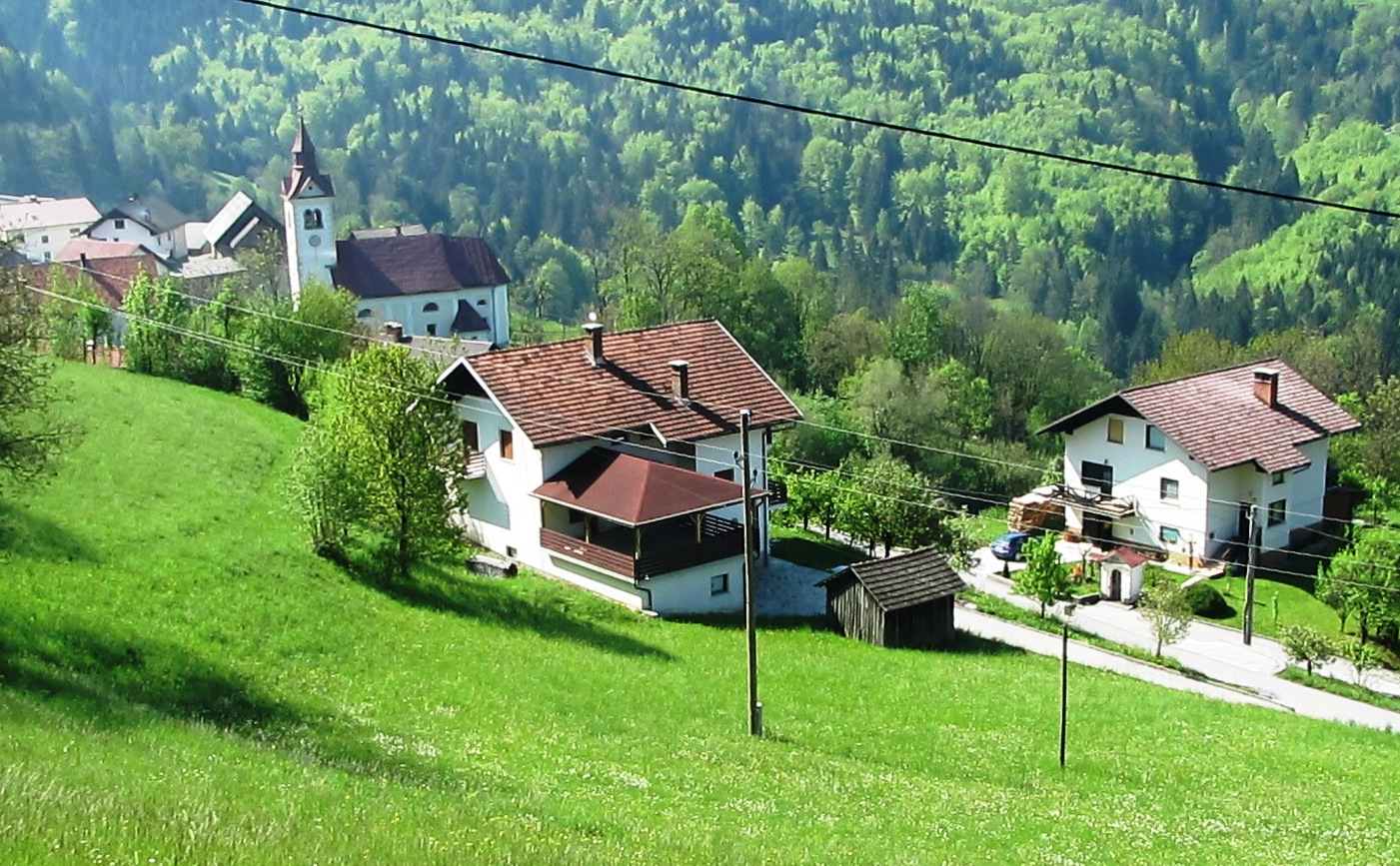 Planina pri Cerknem, Municipality of Cerkno, Slovenia